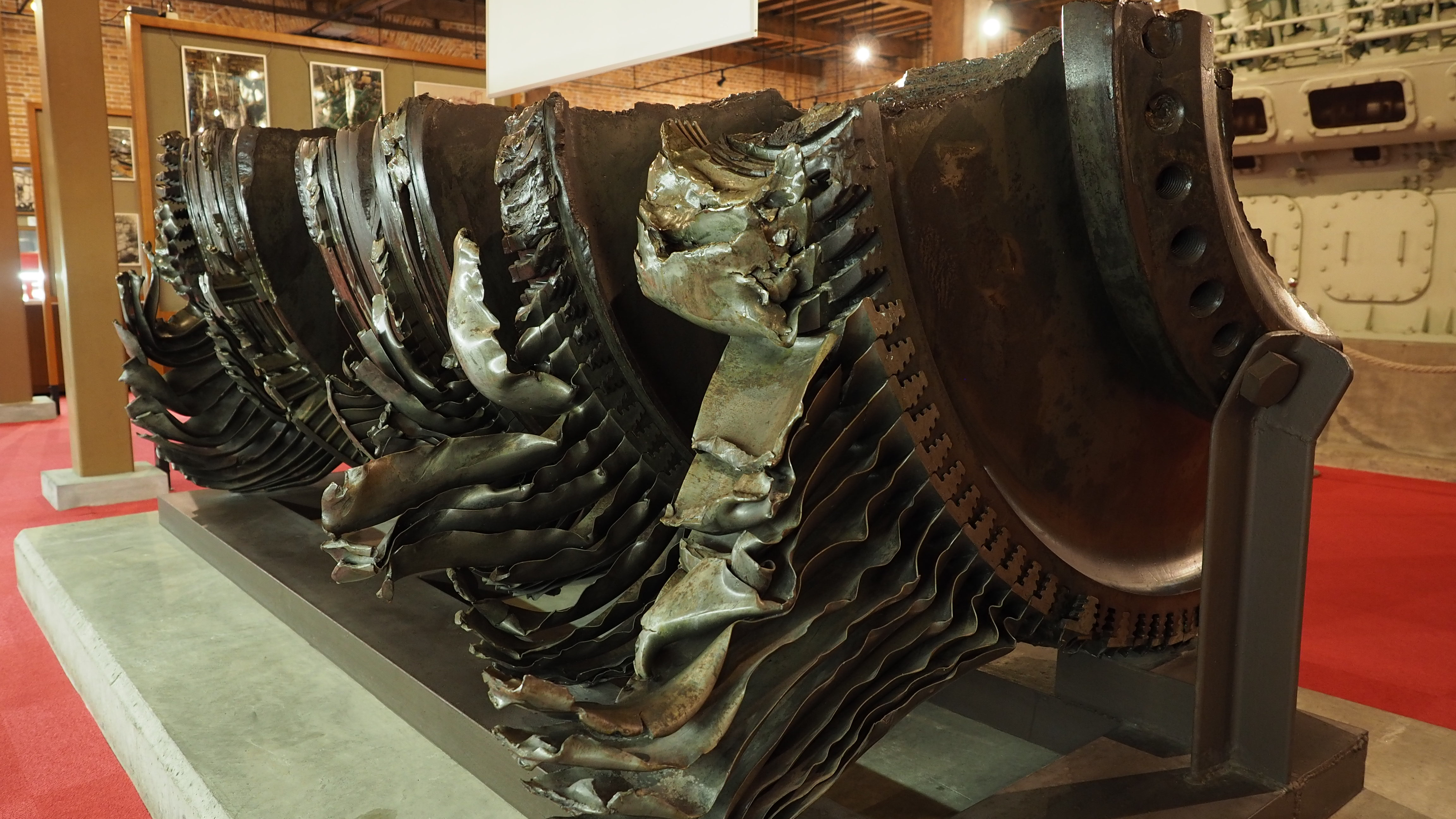 One of the fragments of a steam turbine rotor which broken into four pieces in an accident during a test in 1970. This 9 t weight fragment was found in Nagasaki Bay 880 m away from the accident site.